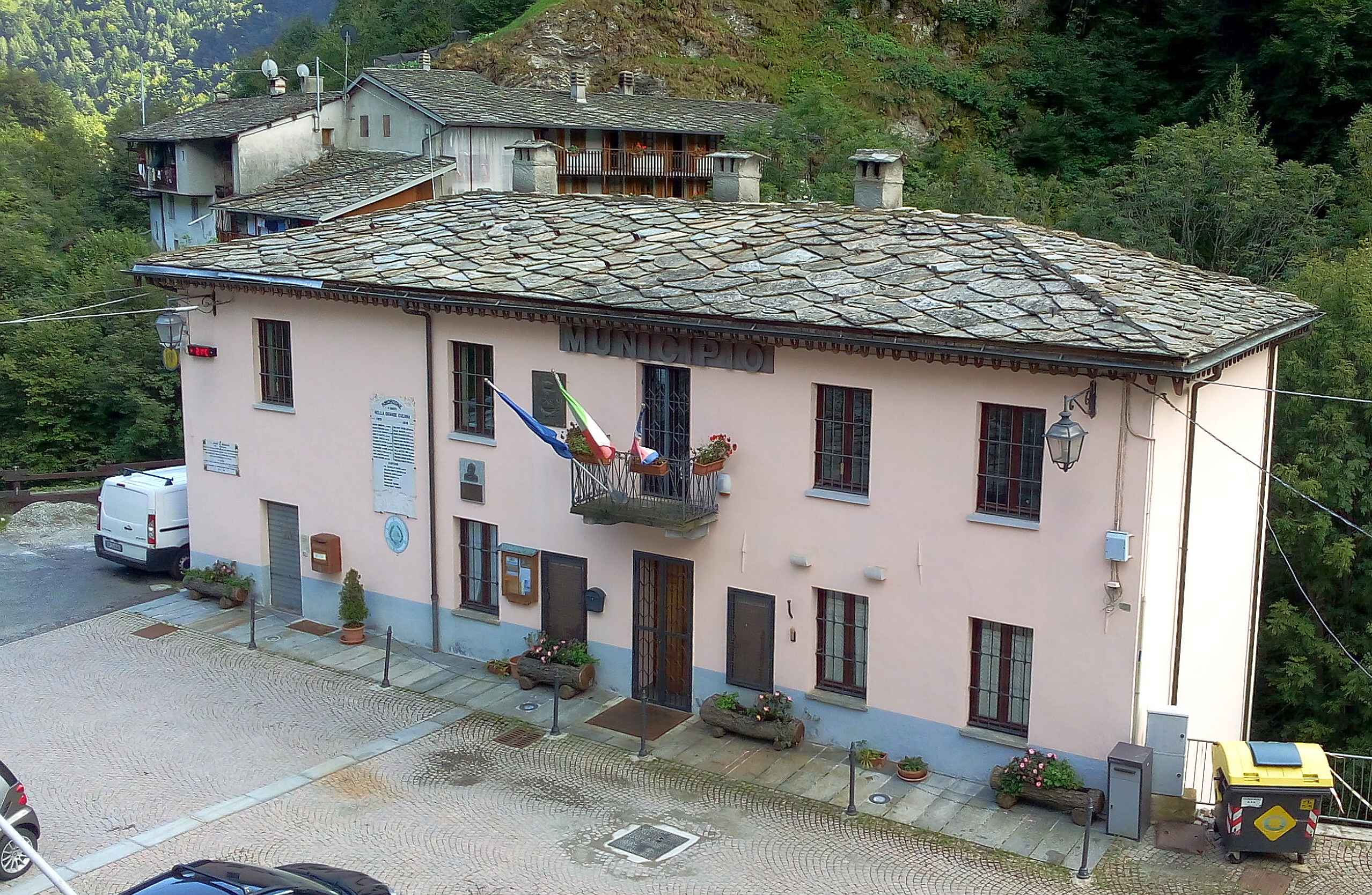 Ribordone (TO, Italy): town hall